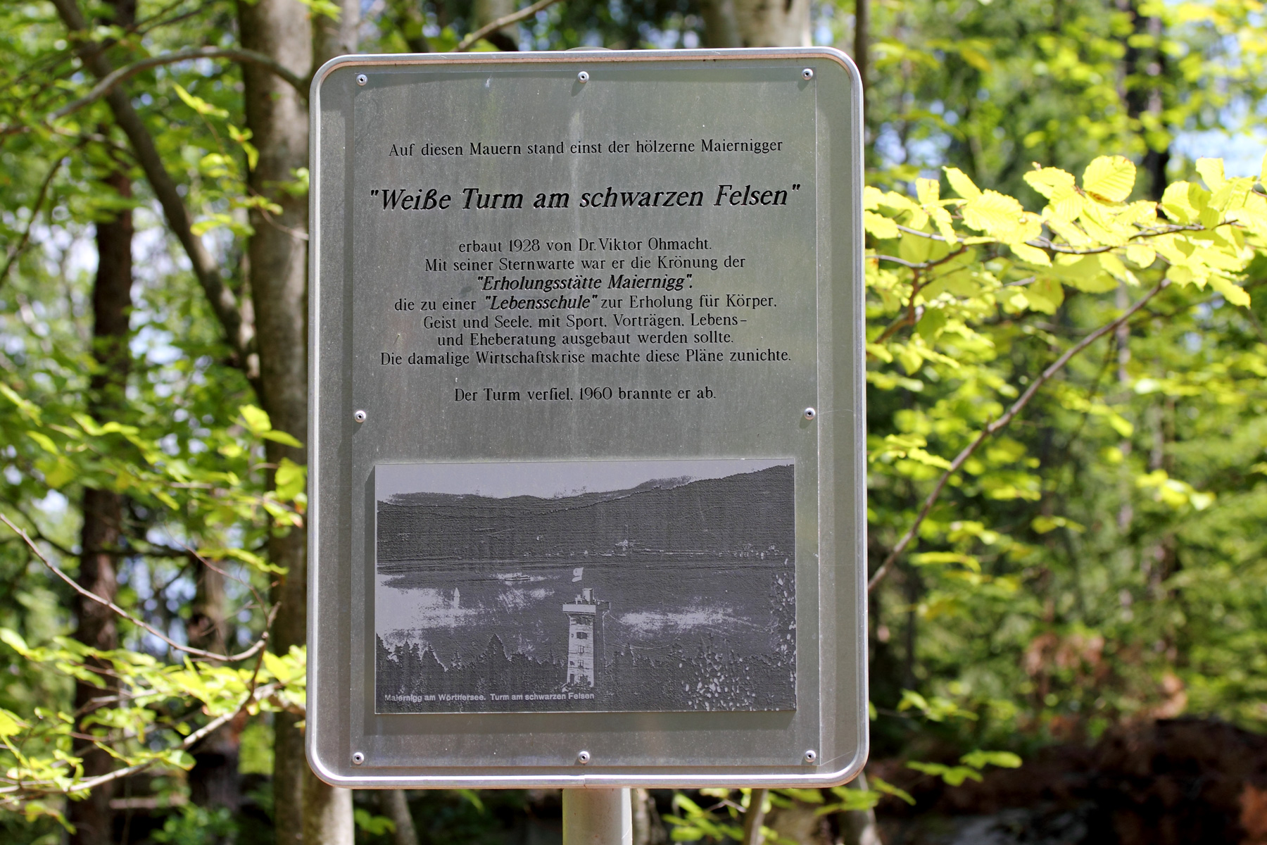 The "White Tower on the Black Rock" is a former observatory near Klagenfurth (Austria).